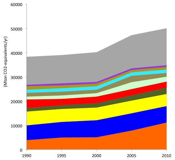 Emissions of CO2-equivalents per year by the 10 largest emitters (note: the European Union is lumped as a single area, because of their integrated carbon trading scheme). Data based on EU's EDGAR database (here). Data sorted based on 2010 contributions China (party, no binding targets) United States (non-party) European Union (party, binding targets) India (party, no binding targets) Russia (party, binding targets 2008-2012) Indonesia (party, no binding targets Brazil (party, no binding targets) Japan (party, no binding targets) Congo (DR) (party, no binding targets) Canada (former party, binding targets 2008-2012) Other countries